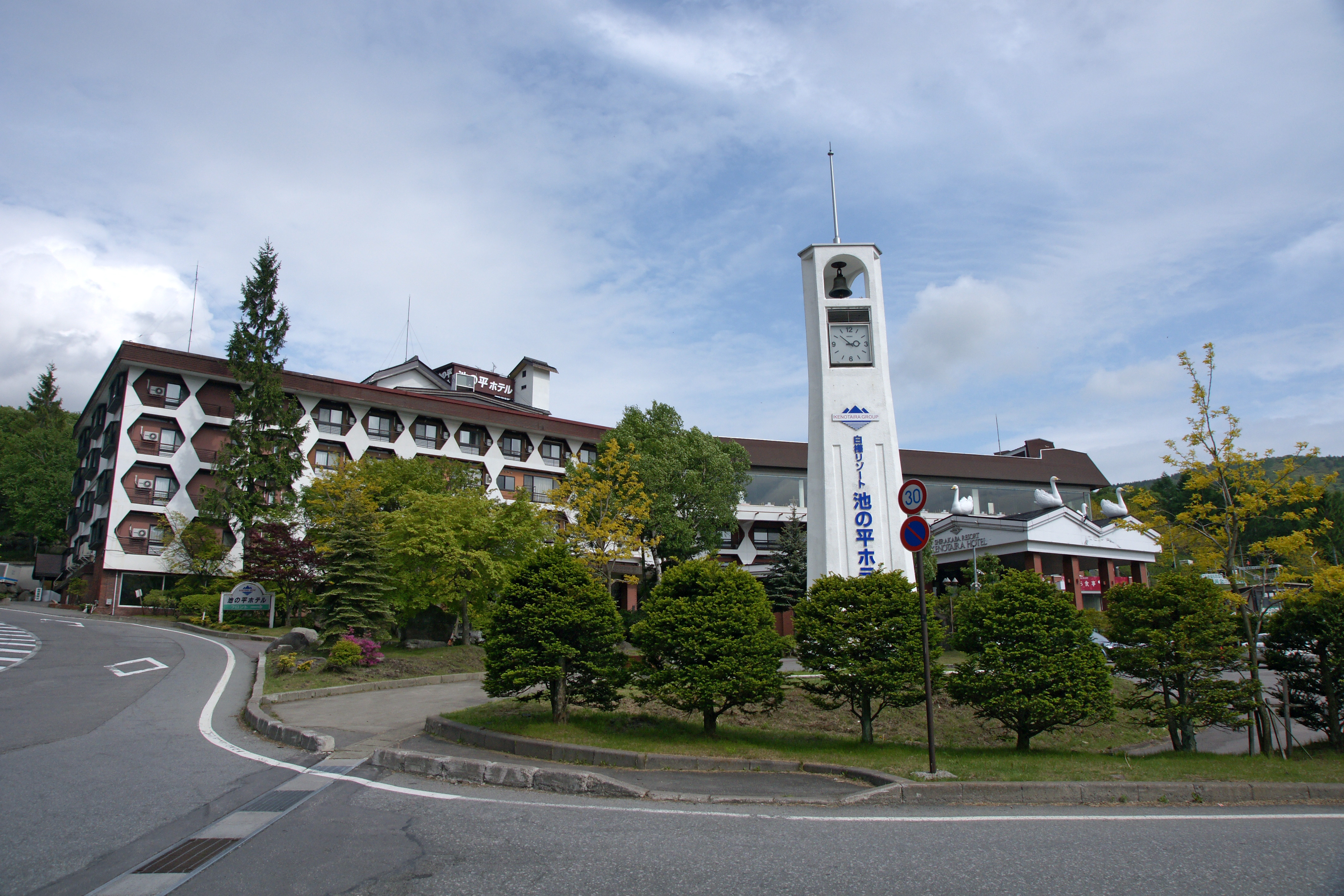 Ikenotaira Hotel, Lake Shirakaba, Tateshina, Nagano prefecture, Japan